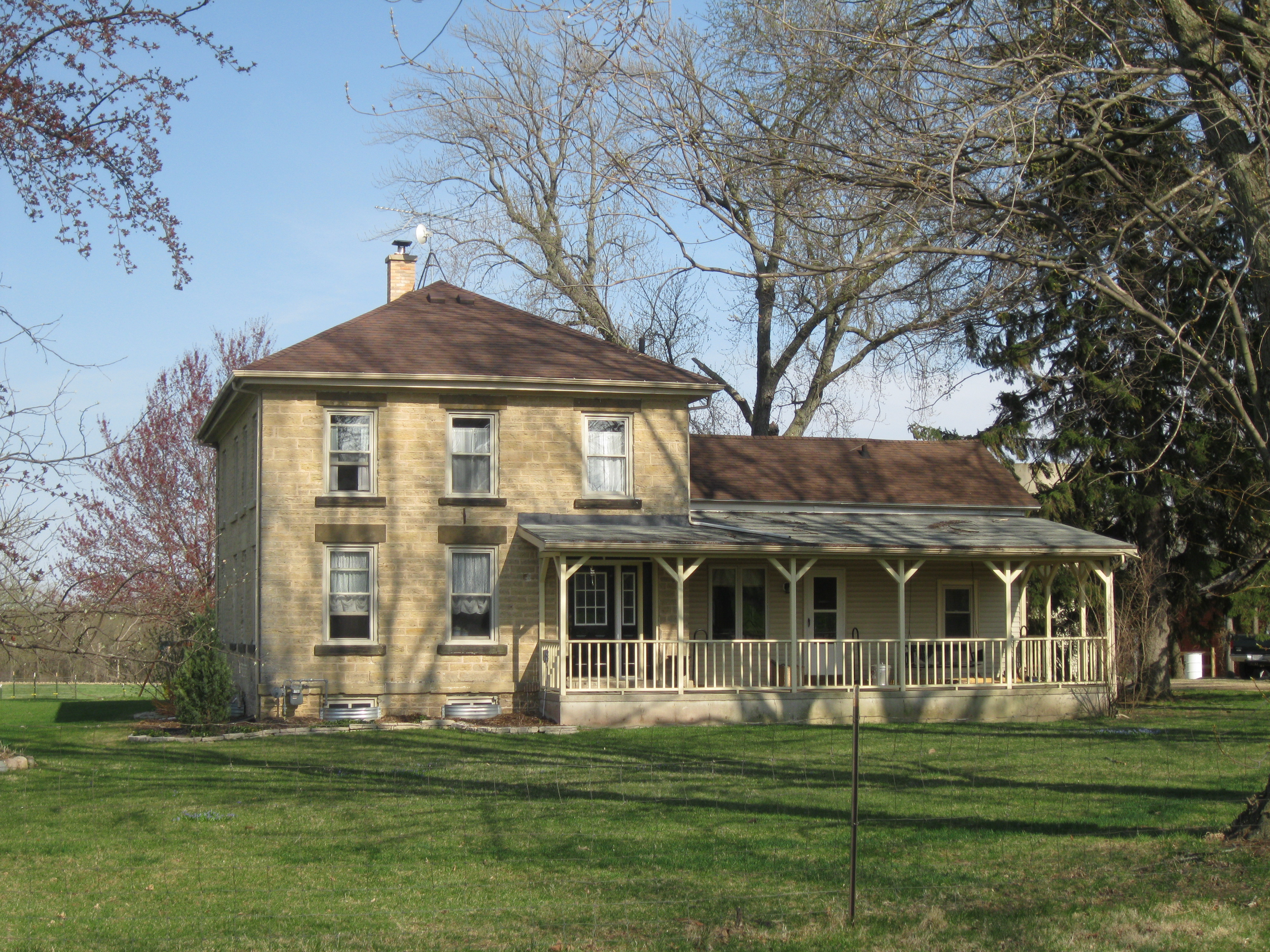 The Samuel Hunt House at 632 Center Road in Rutland, Wisconsin.